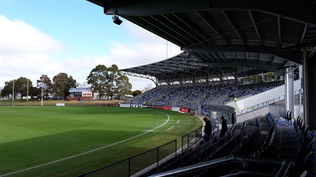 The western side of Mars Stadium, Ballarat.